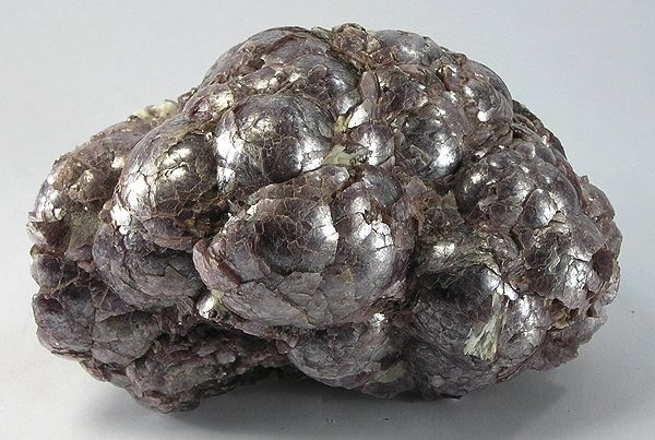 Lepidolite Locality: Itinga, Jequitinhonha valley, Minas Gerais, Southeast Region, Brazil (Locality at ) Size: 11.8 x 7.2 x 6.9 cm. This extraordinary lavender lepidolite is often called "ball" lepidolite due to the fact that the sheety crystals form these bubbly forms. This is a big specimen that appears to be a solid lump of solid lepidolite.